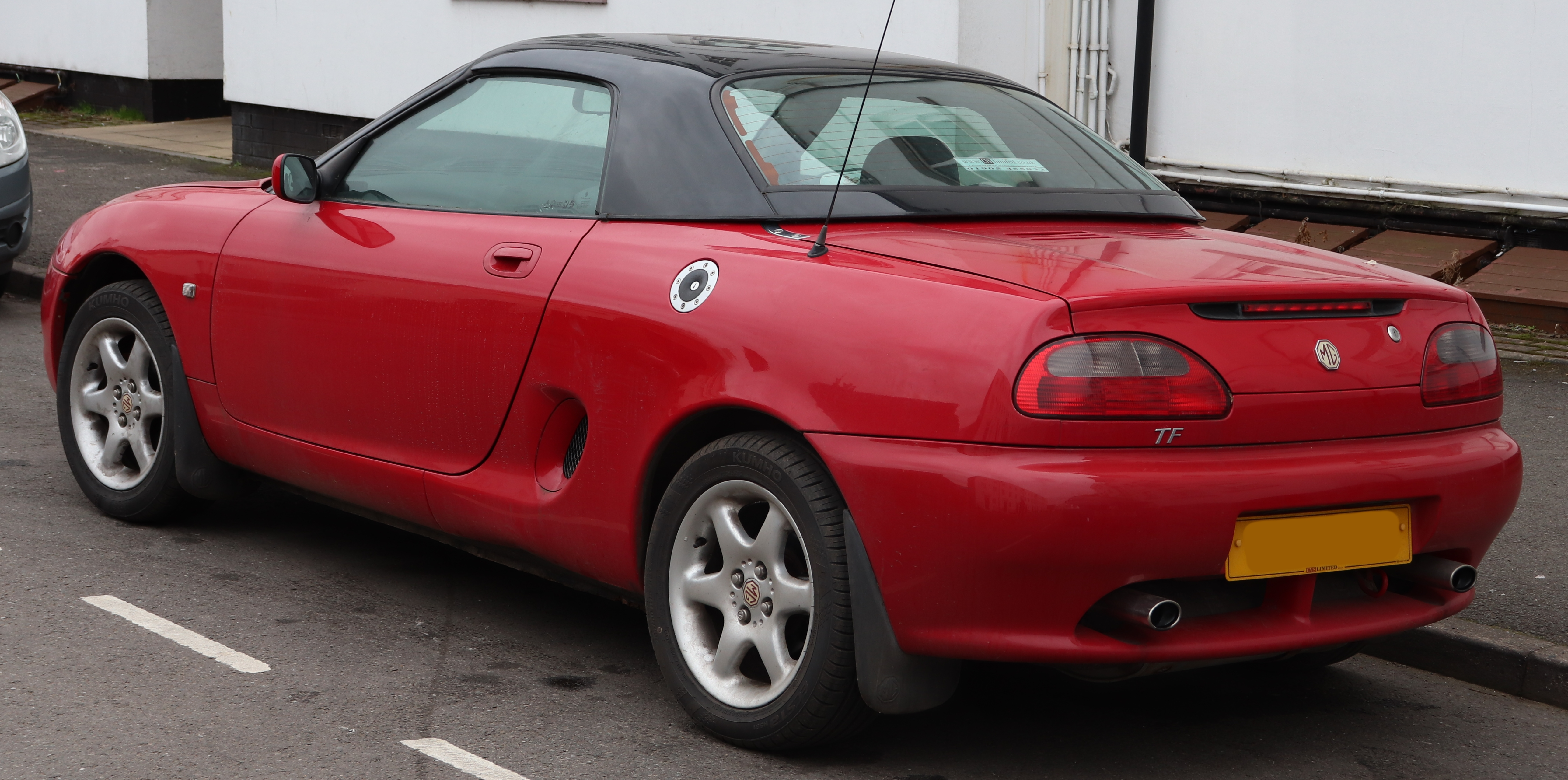 1999 MG F 1.8 Rear Taken in Leamington Spa